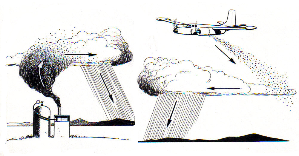 line art drawing of cloud seeding.